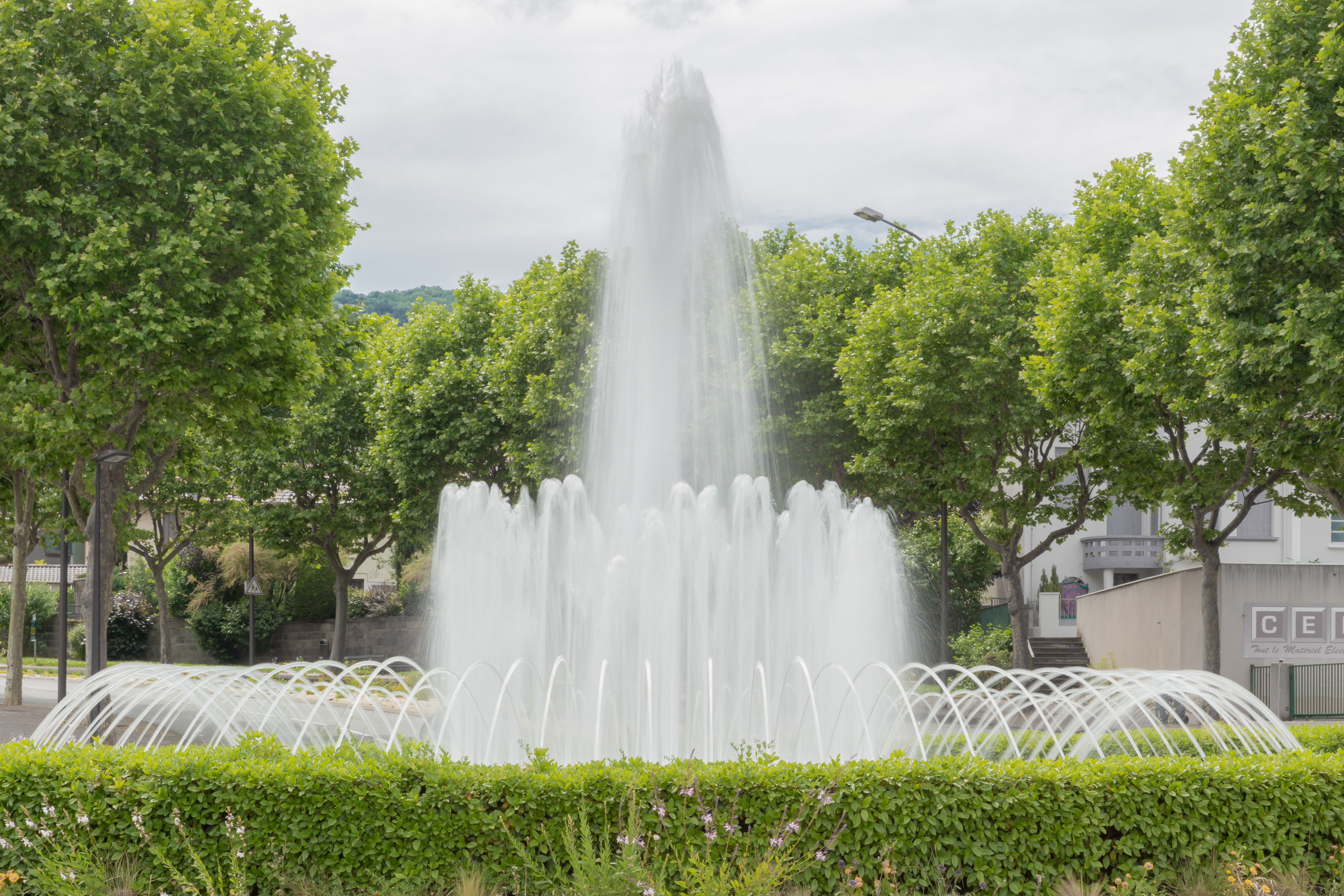 Fountain in Chamalières in Auvergne, France.